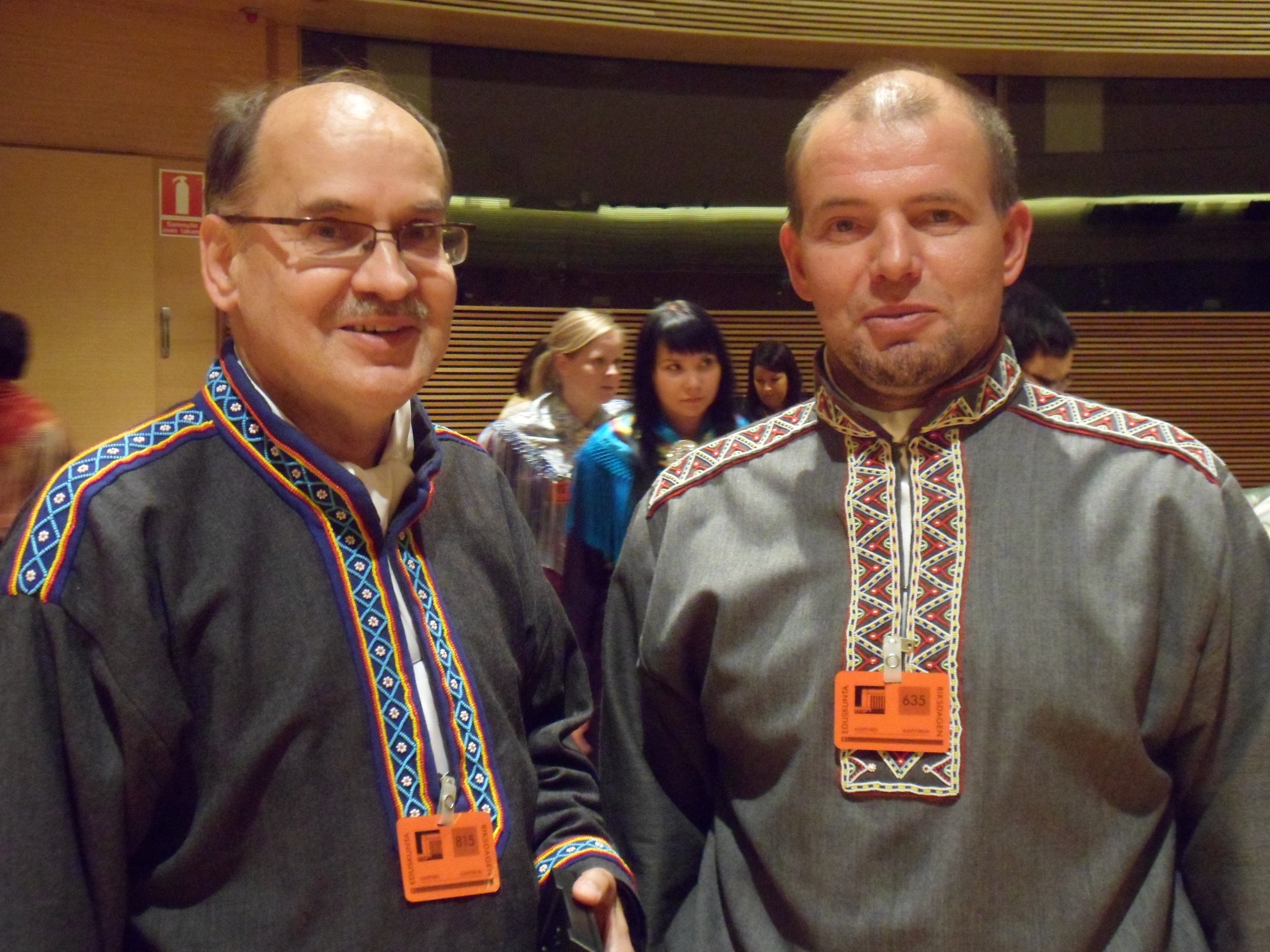 Skolt politician and cantor Erkki Lumisalmi (left) and Skolt reindeer herder and village elder Veikko Feodoroff (right) at the Sámi and Maori Language Revitalization Seminar in Helsinki, Finland on September 13 2011